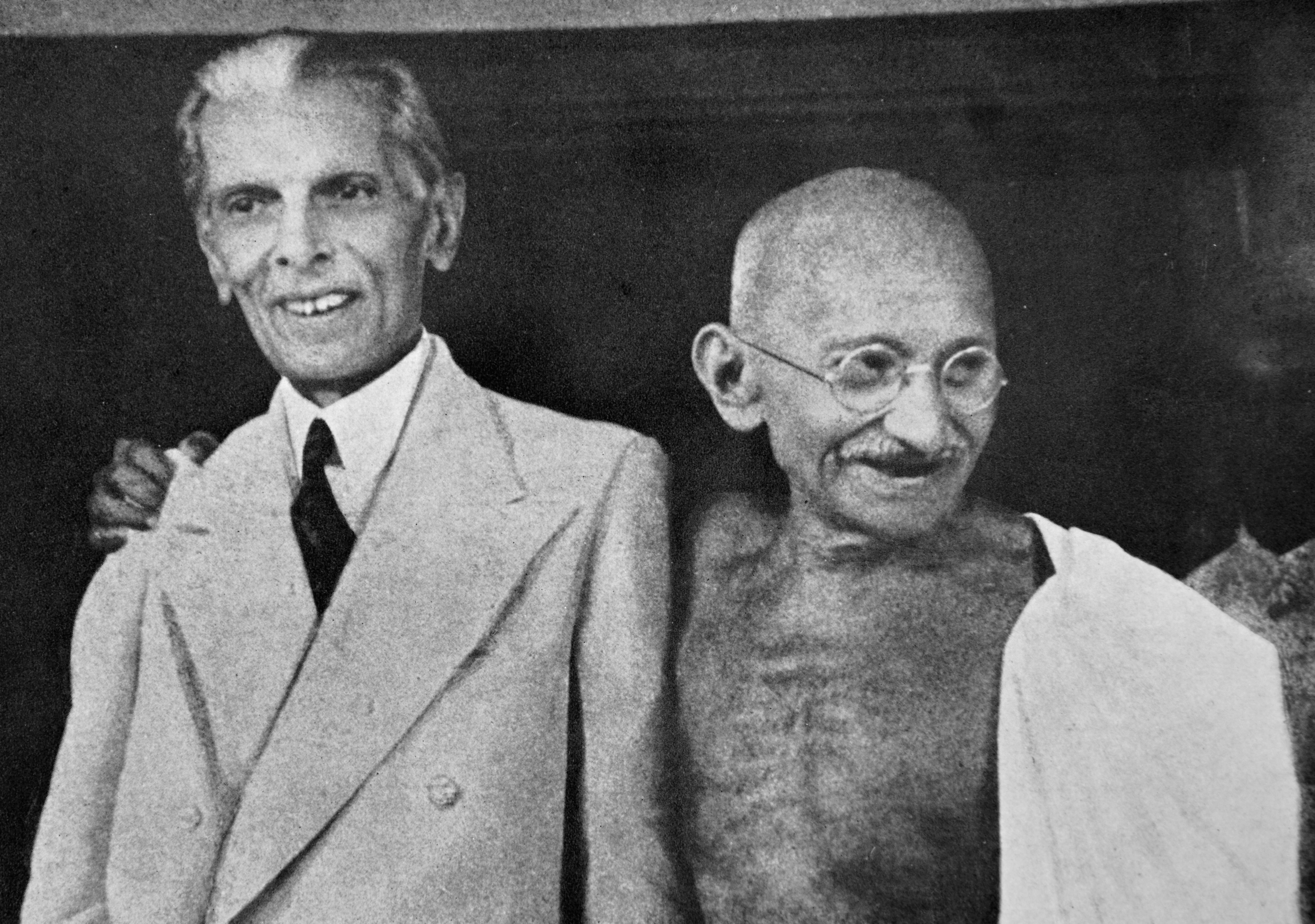 Gandhi and Jinnah in Bombay, September 1944.